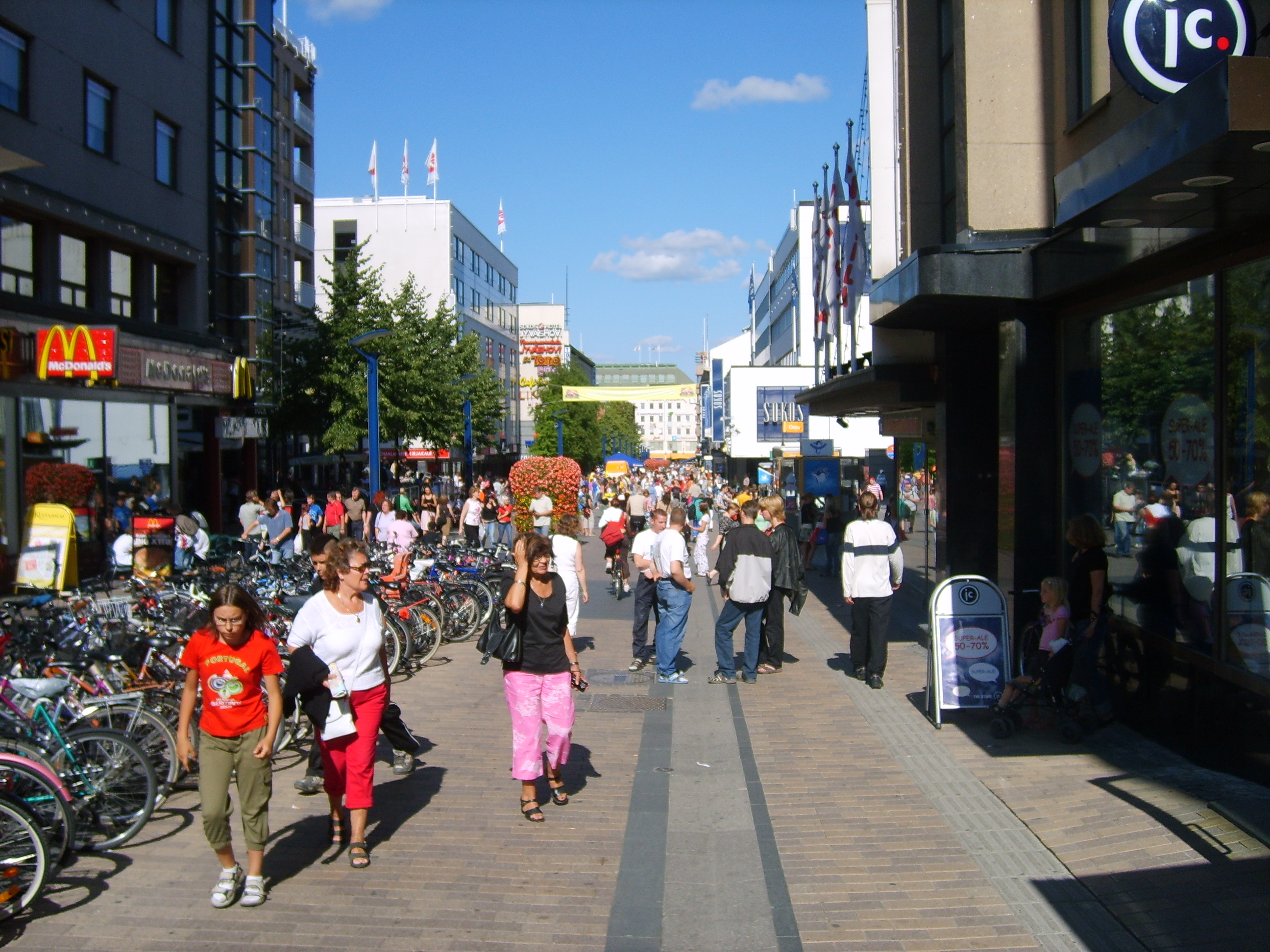 Kauppakatu street in Jyväskylä, Finland